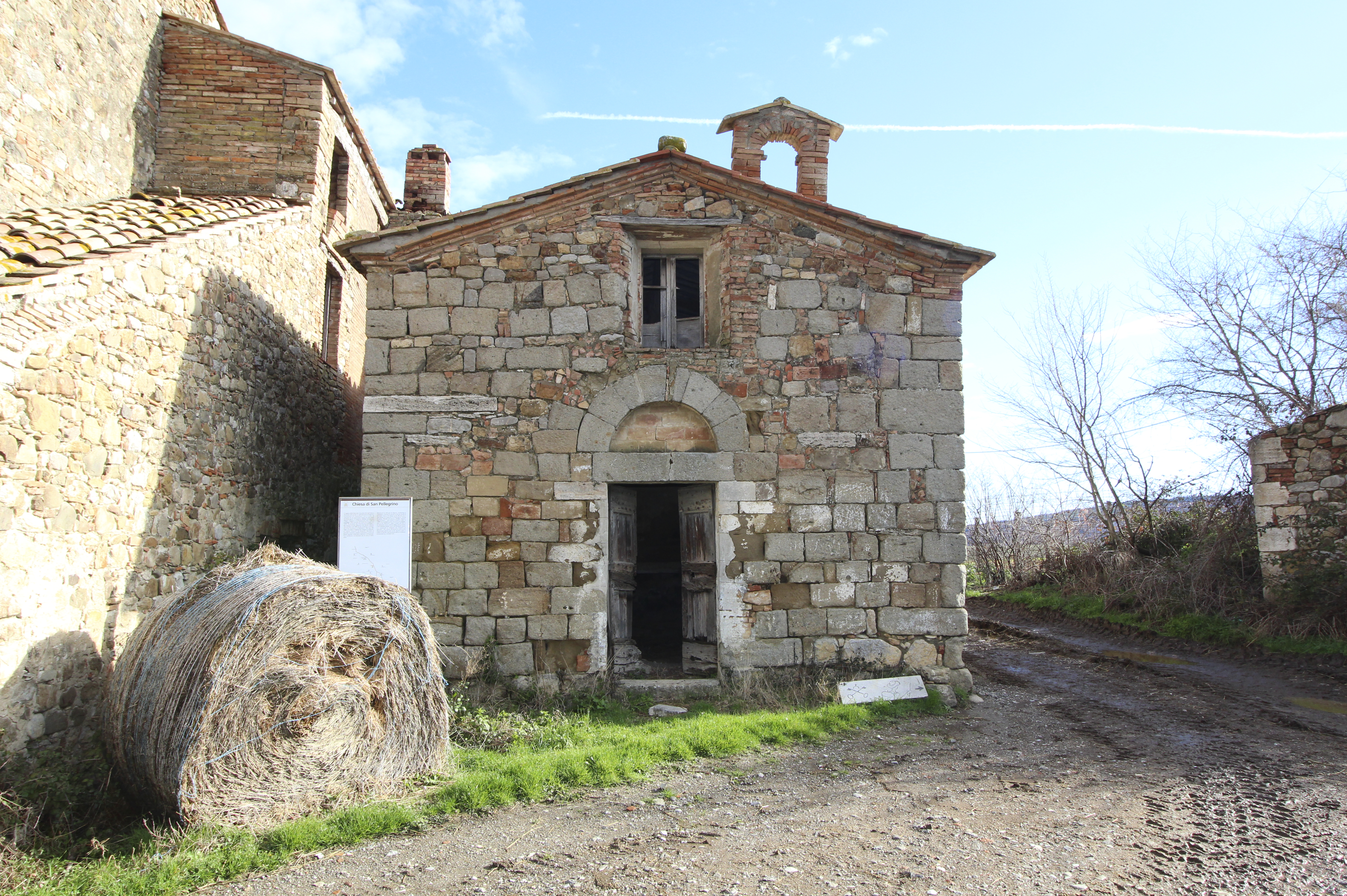 Church San Pellegrino alle Briccole, Le Briccole, near Gallina, hamlet of Castiglione d'Orcia, Province of Siena, Tuscany, Italy